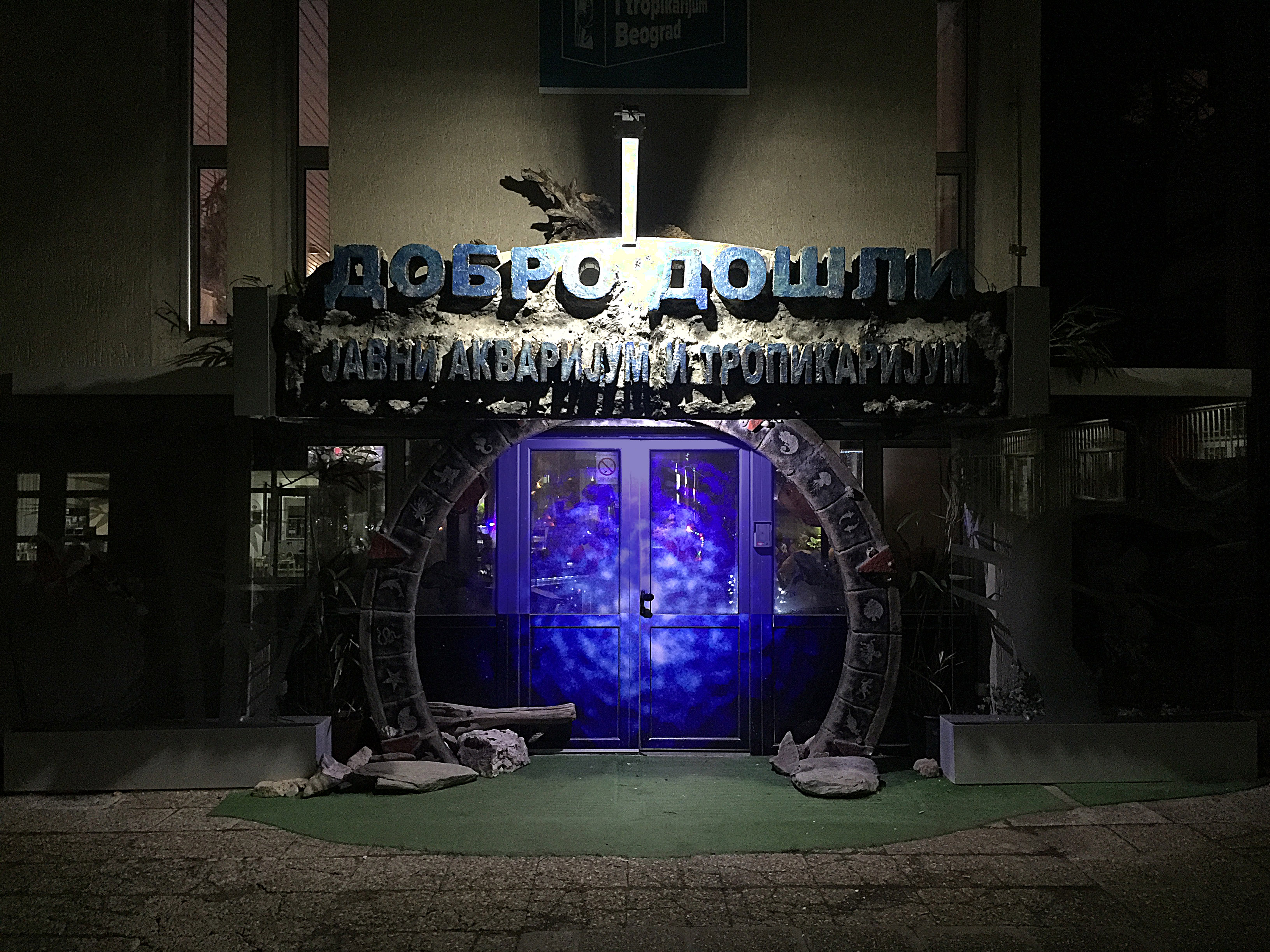 Public Aquarium and Tropicarium Belgrade